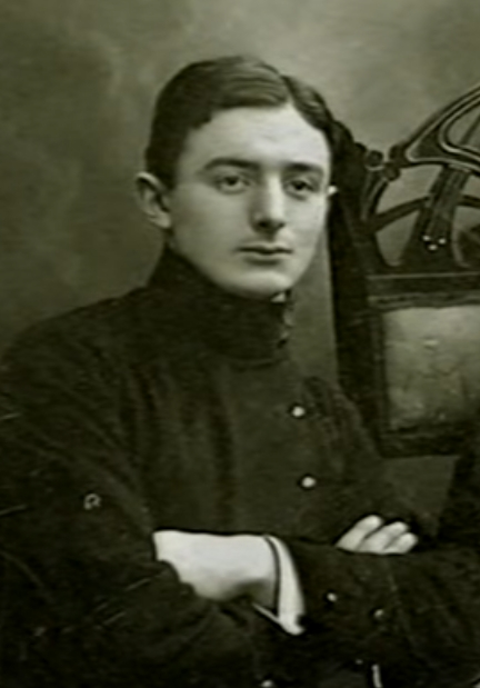 David (Denis) Kaufman, photographed by his brother Moisey (Mikhail)